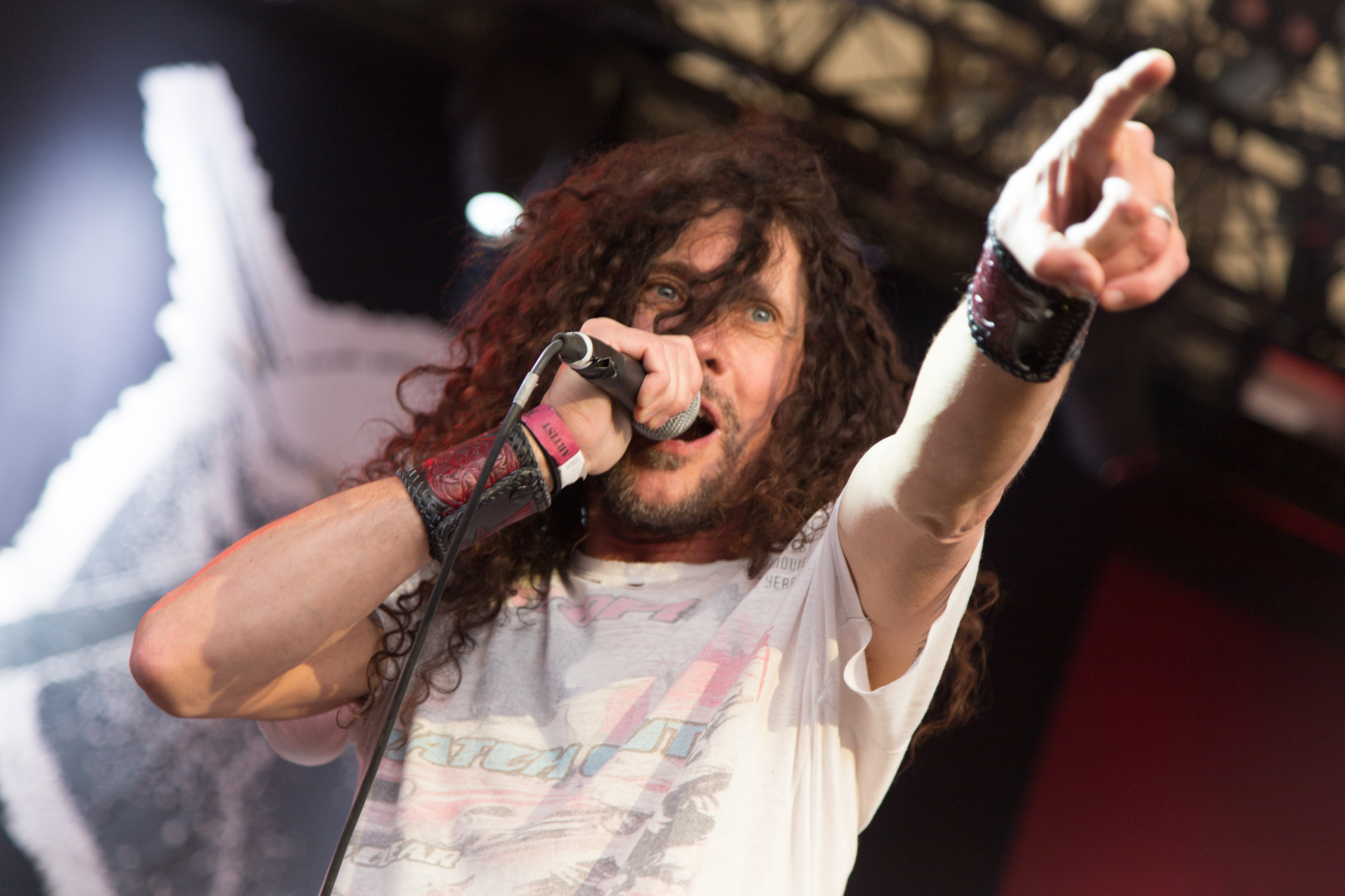 Candlemass performing live at Rock Hard Festival 2017, Gelsenkirchen, Germany